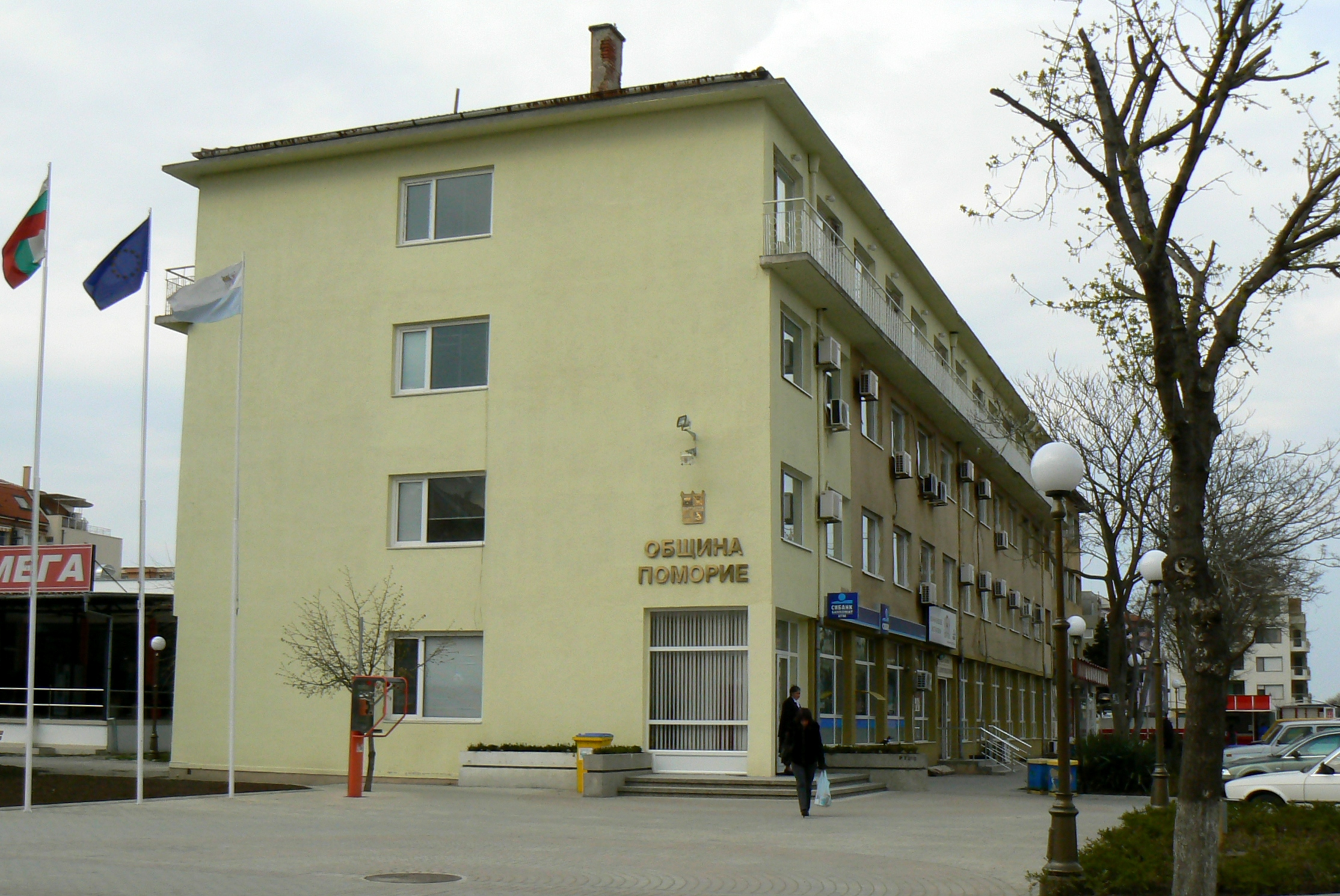 The building of the Pomorie Municipality in the town of Pomorie in Bulgaria (year 2010)